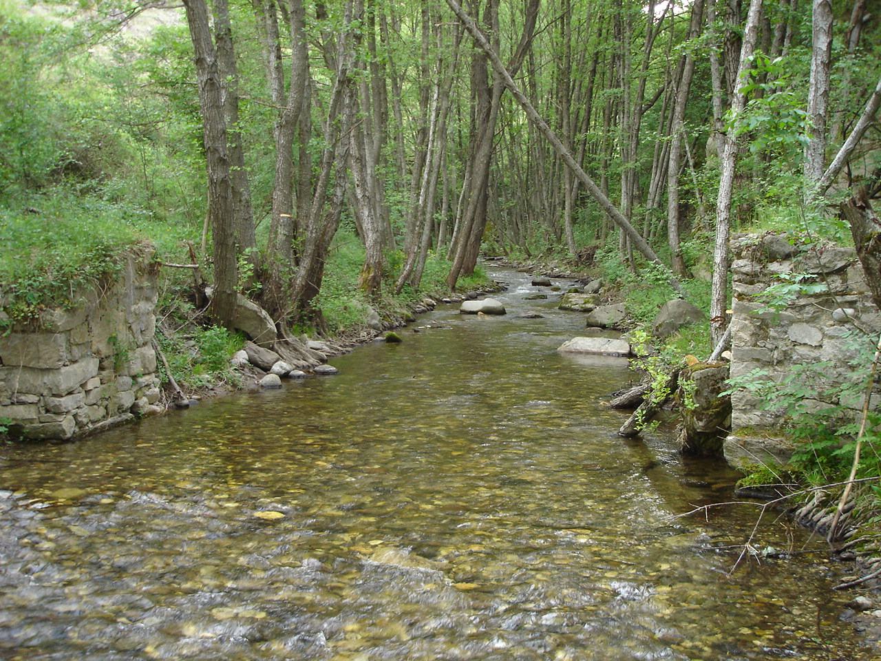 Satoka River in Mariovo region, Macedonia